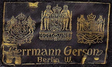 Herrmann Gerson, Berlin W. Label in man's fur lined coat, probably 1920's.